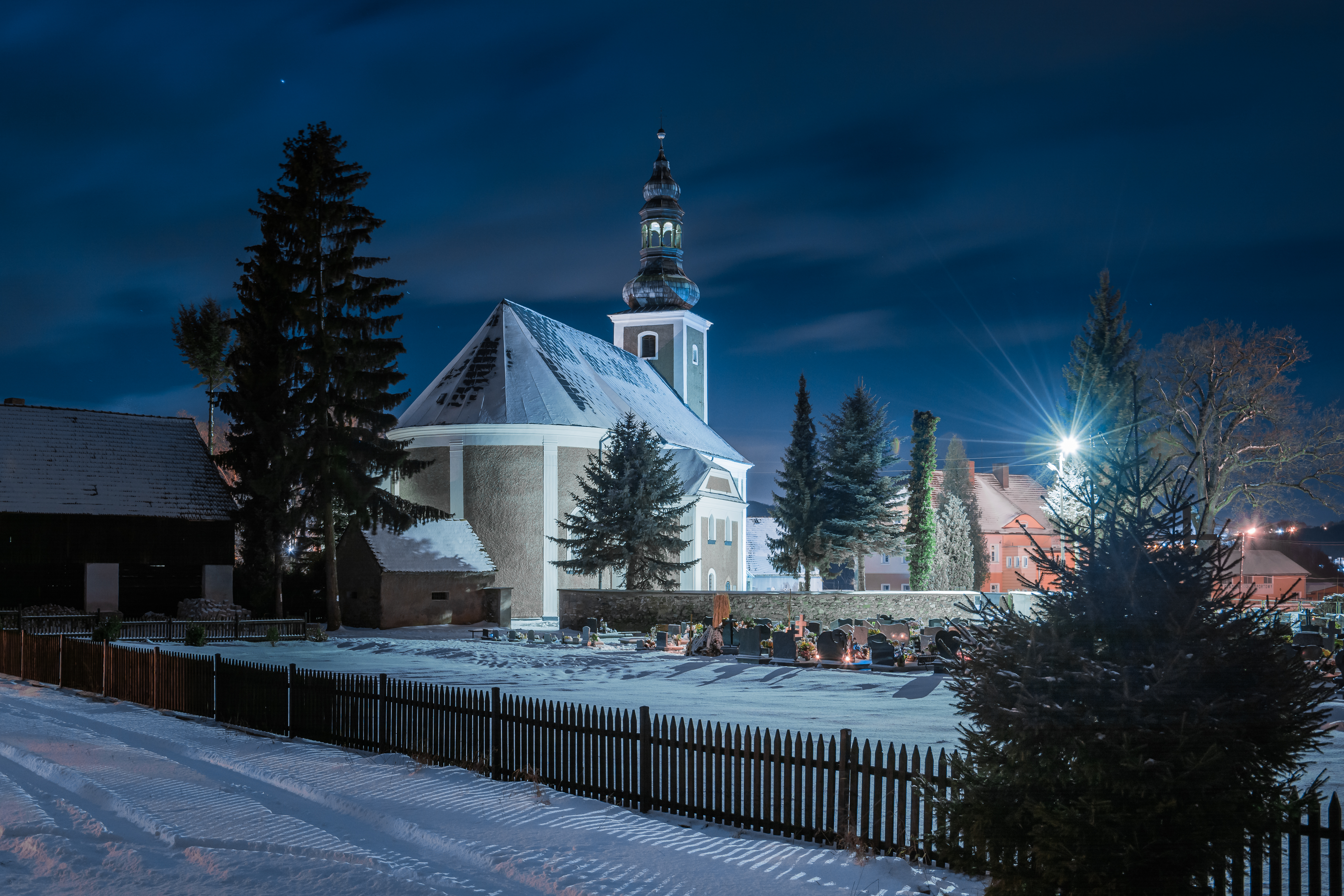 Church of St. Andrew in Trzebieszowice, Poland.